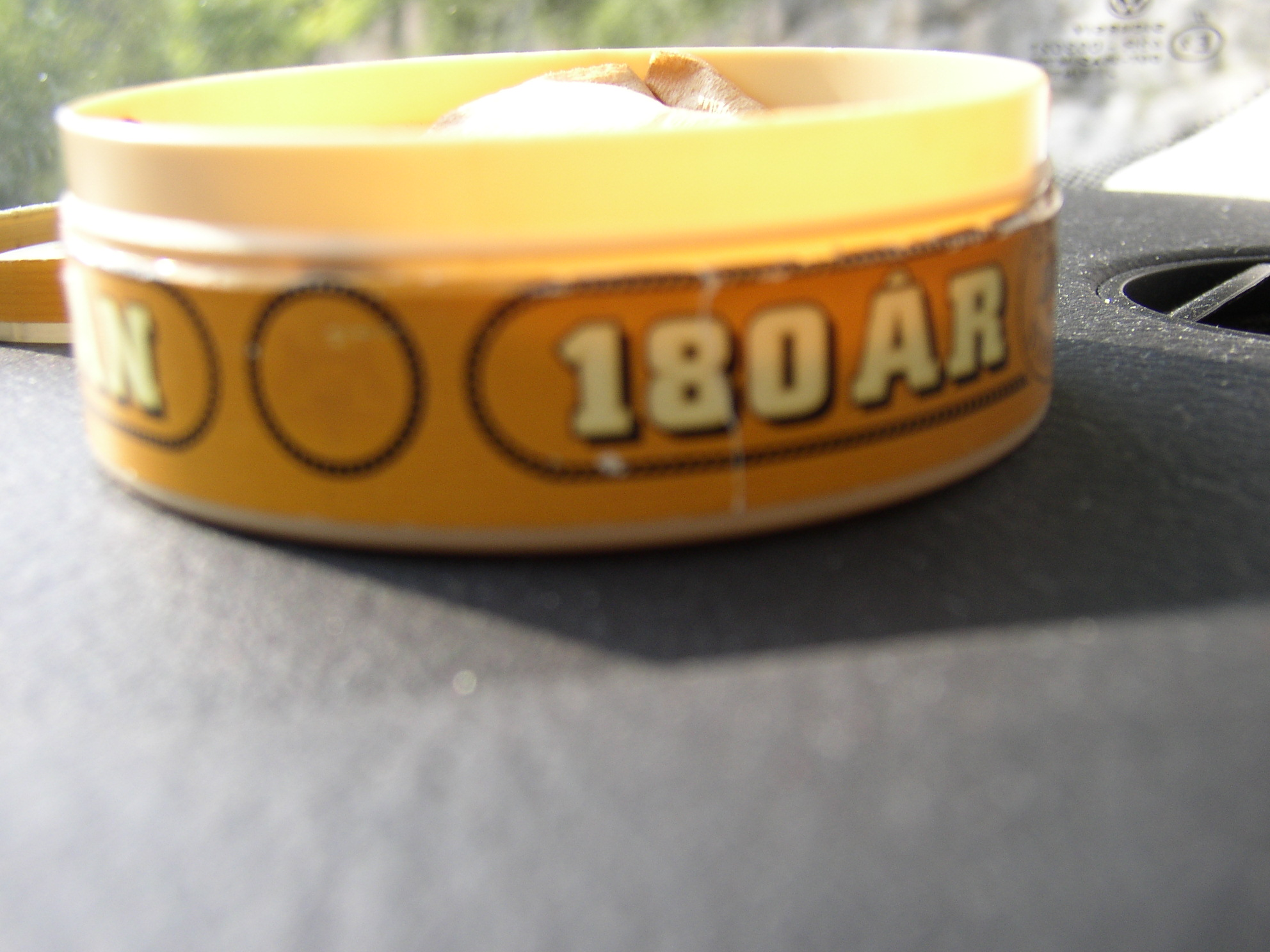 Snus Ettan